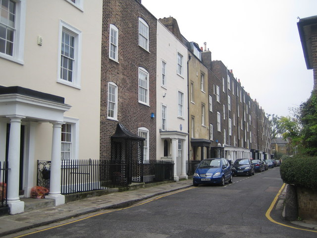 Hammersmith Terrace Hammersmith Terrace is a block of 17 townhouses backing onto the River Thames and dating from around 1750, when this area was on the outskirts of London. Three of the residences have blue plaques. The calligrapher Edward Johnston, who designed the font used by London Underground, lived at No 3, the typographer and antiquary Sir Emery Walker lived at No 7, and the author and humorist A P Herbert lived and died at No 12.